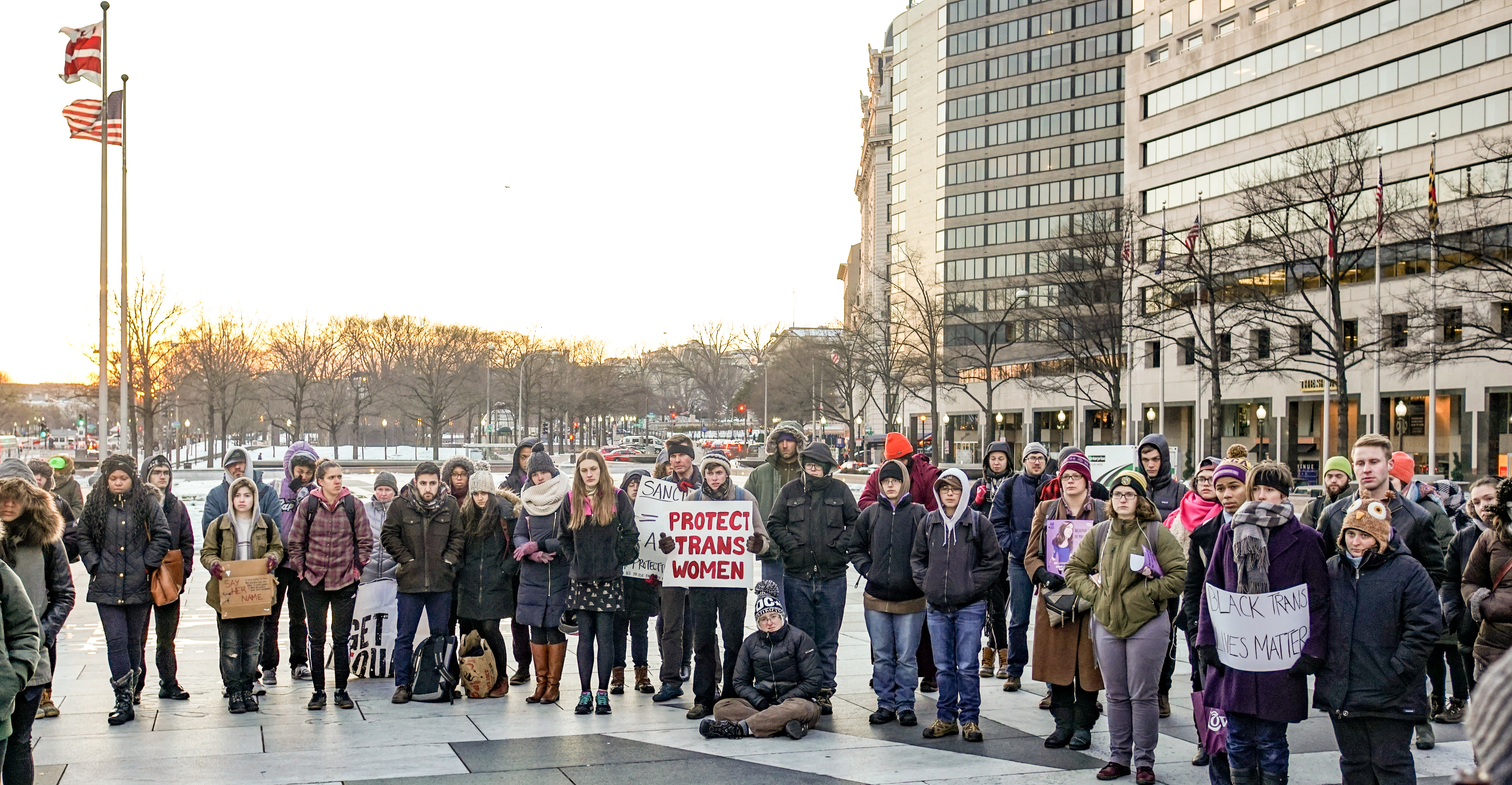 2017.03.15 #ProtectTransWomen Day of Action, Washington, DC USA 01547